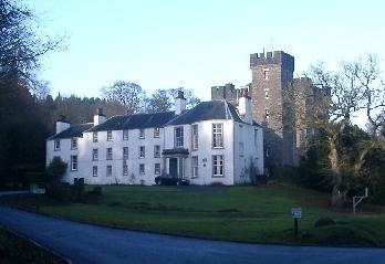 Dalguise House near Dunkeld. Built on the old Dunkeld bishopric, so one of the few bits of the valley that was not Duke of Atholl territory. Owned by the Steuarts, it's had a lot of extending over the years. The original bit is the centre three storied block, then the left hand two storeys were added, the bay-windowed bit, then the castle (by the victorians). Now owned by PGL and used for activity holidays. Rupert Potter, father of Beatrix, rented Dalguise House for several years during his daughter's childhood and early teens, and many of her early animal drawings were made there.